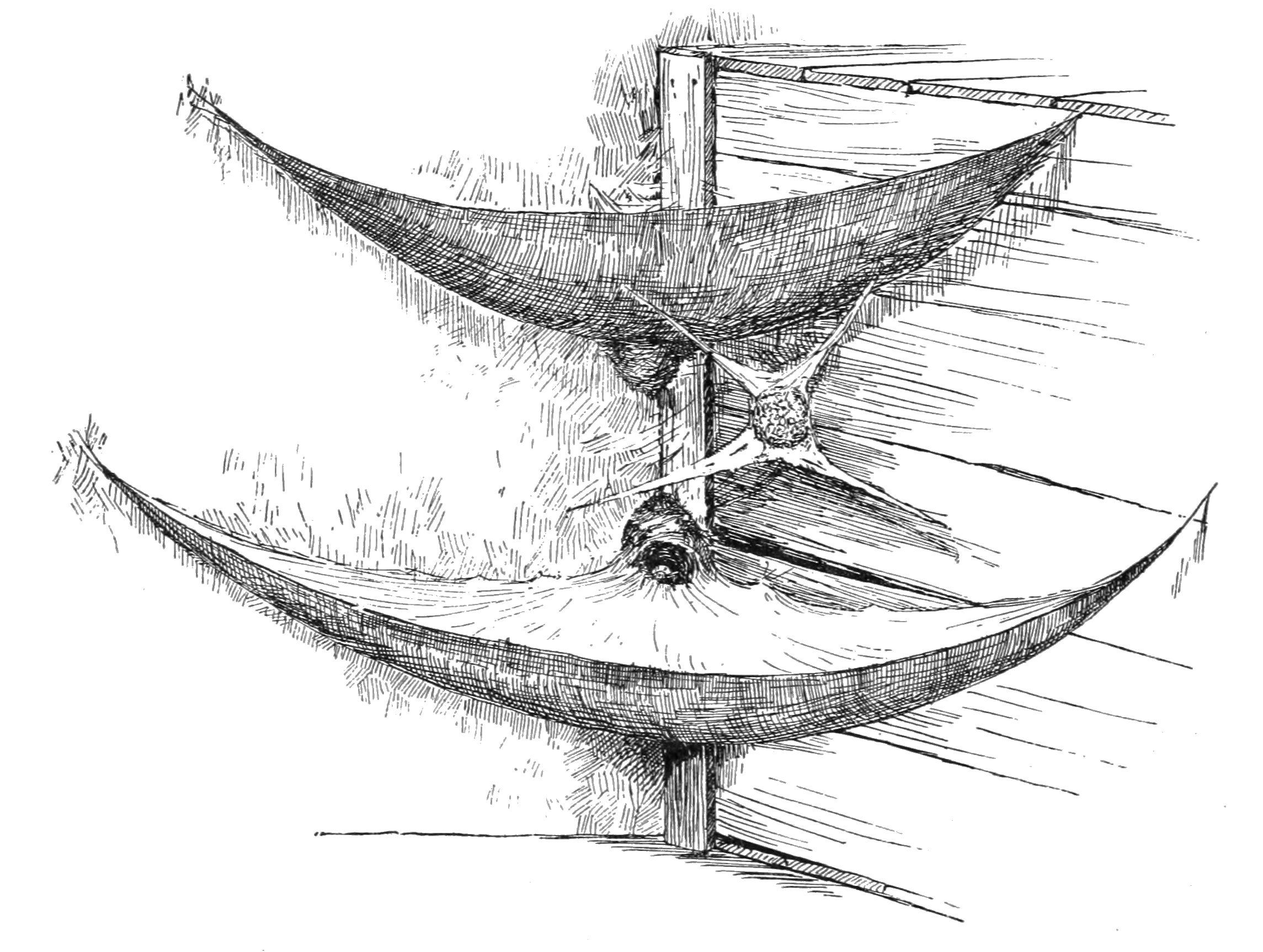 Pouch web tower and cocoon of the medicinal spider